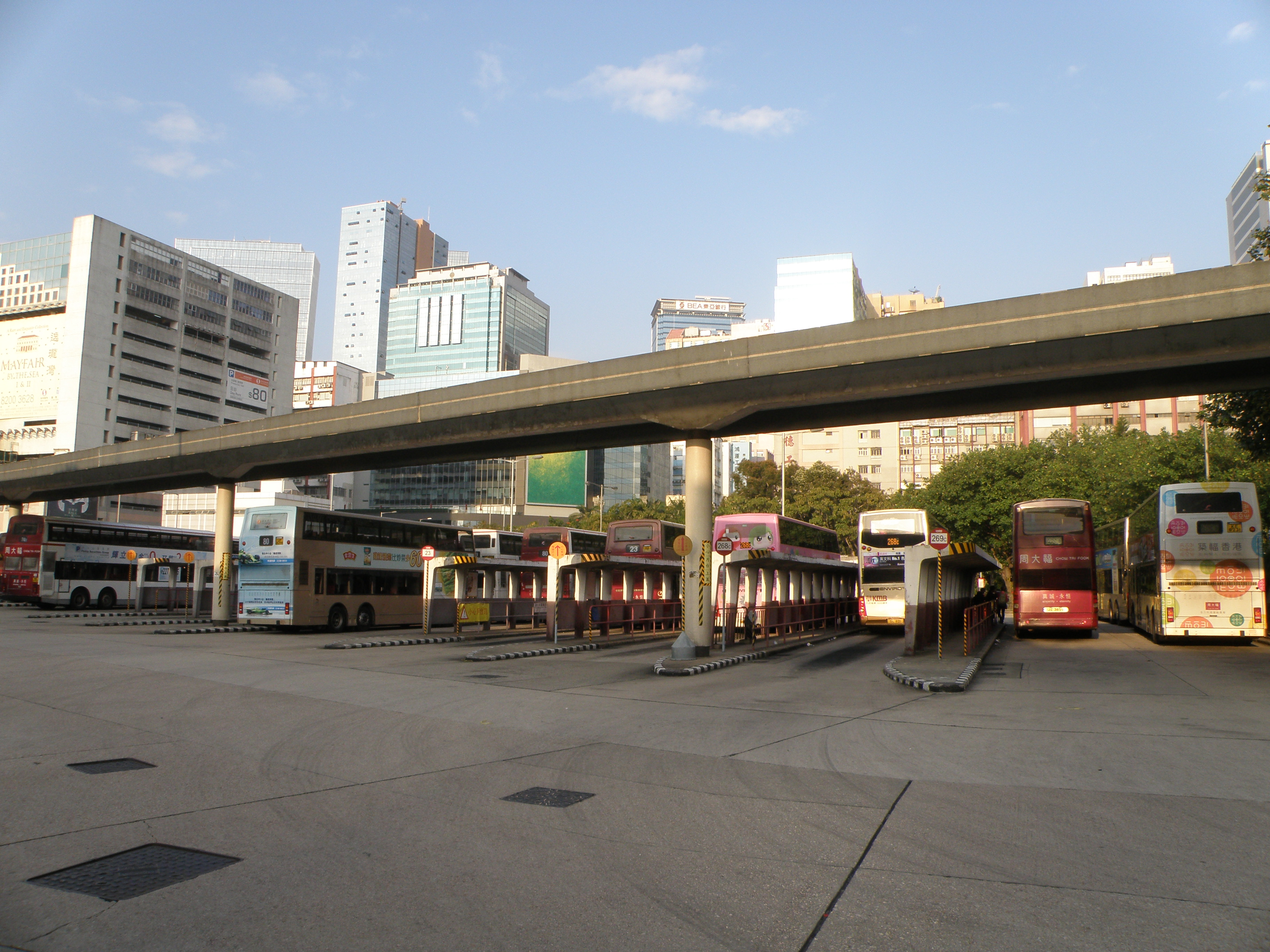 Kwun Tong Ferry Bus Terminus in Kwun Tong, Hong Kong.